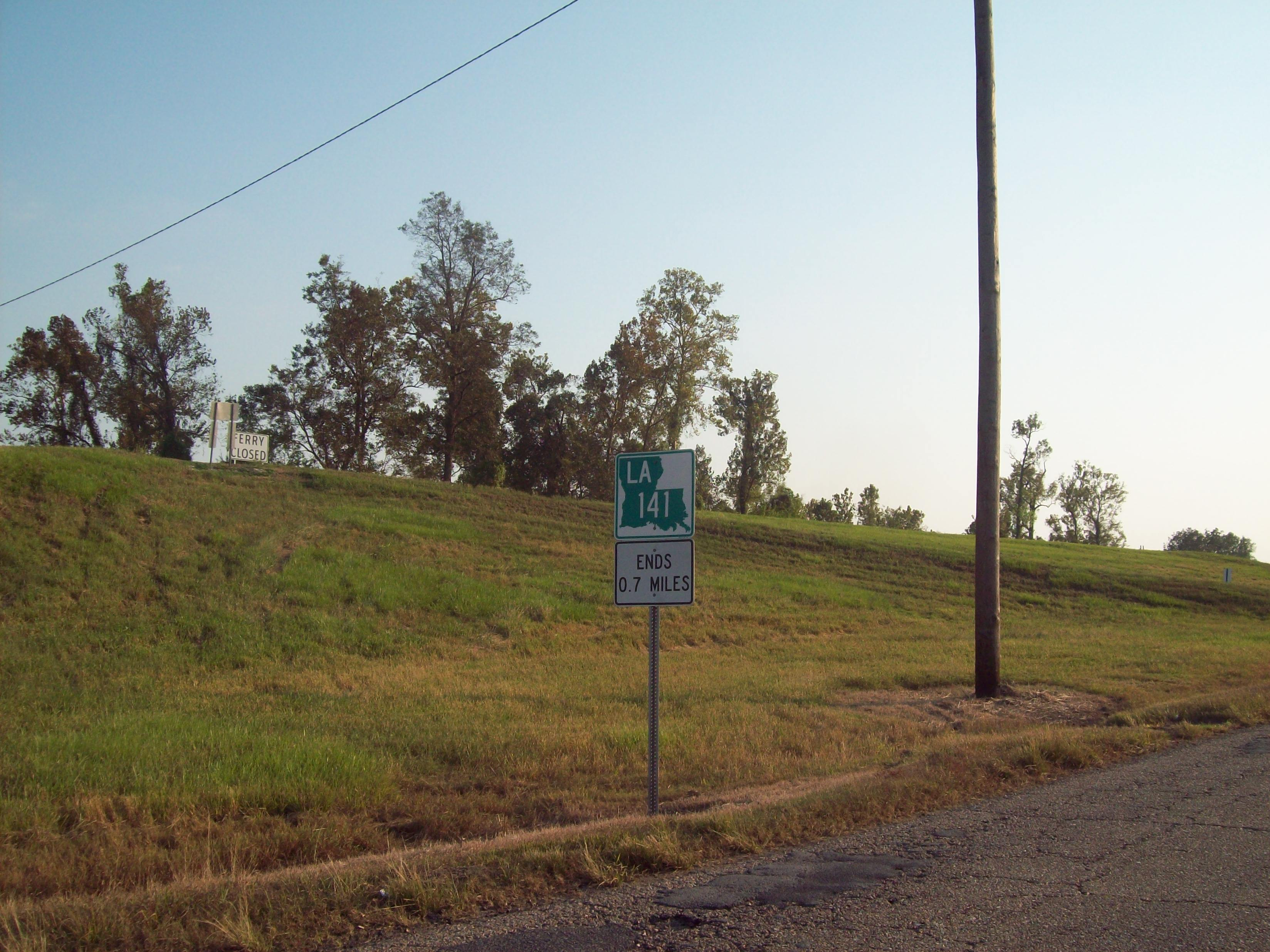 Sign showing the end of LA 141